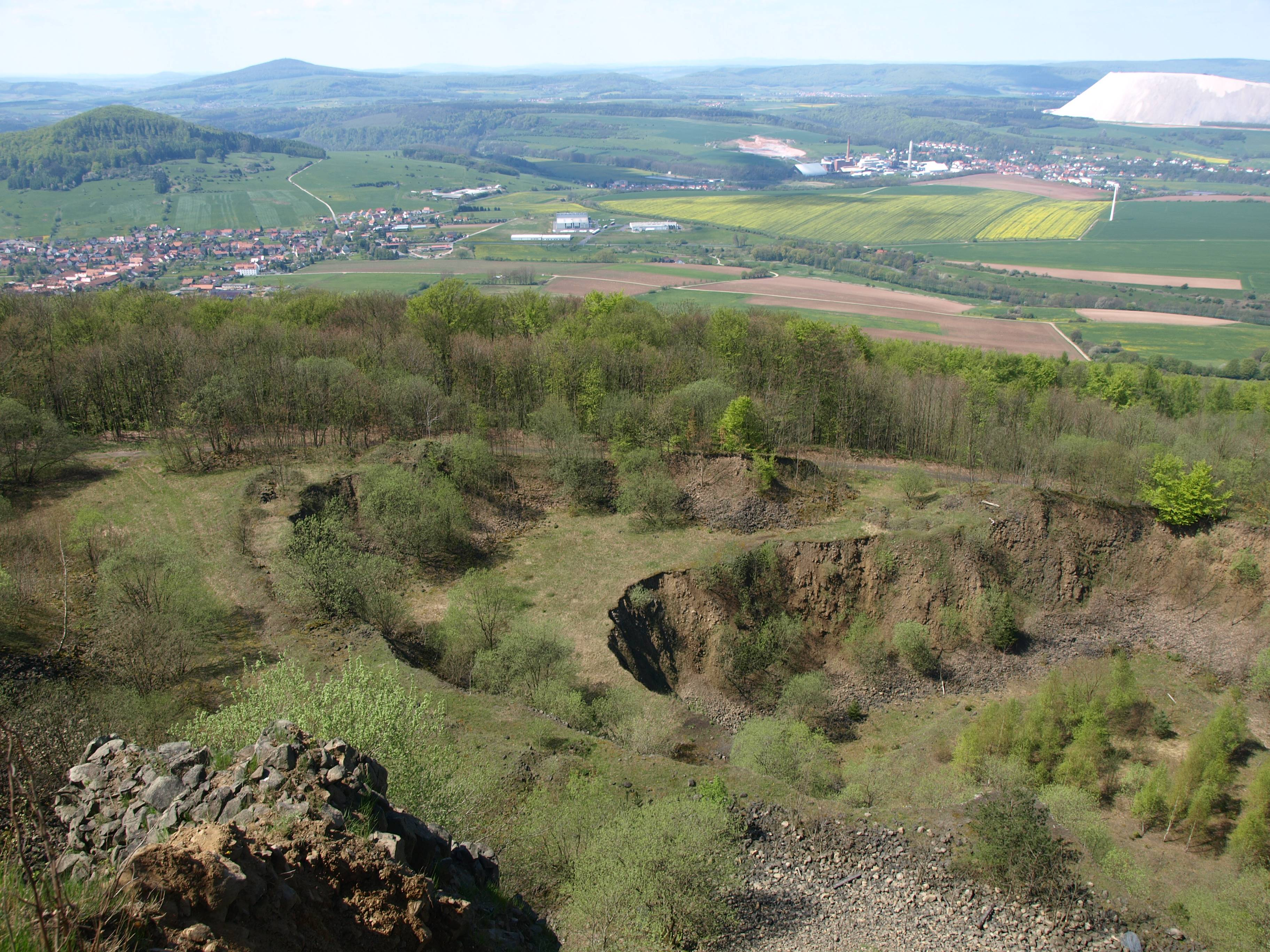 Abandoned stone pit, underneath the summit of the Öchsenberg